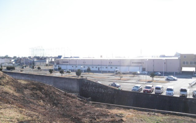 Tsuchiyama car academy